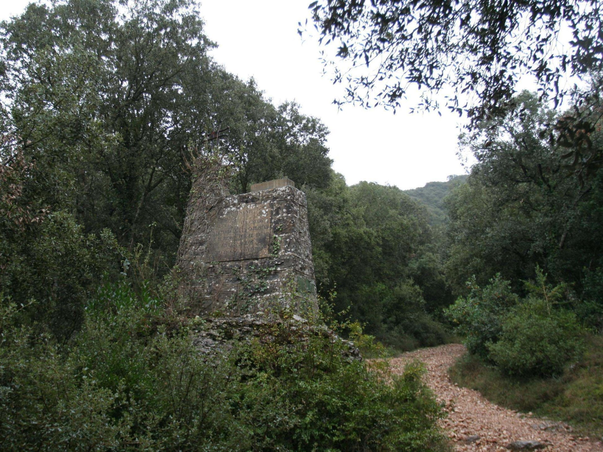 stone marking the beginning of Via Crucis from Iratxe to Montejurra